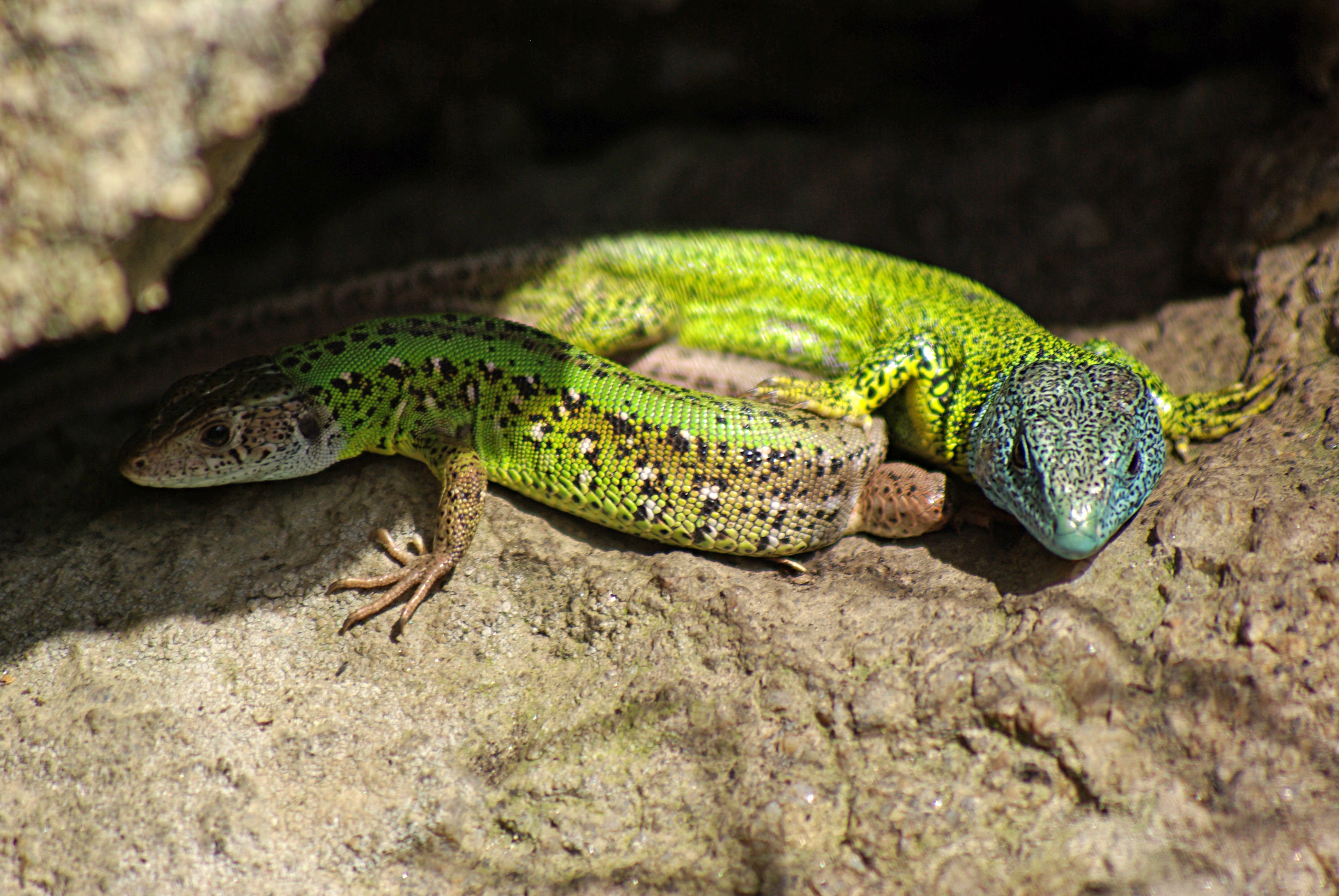 Iberian emerald lizards (Lacerta schreiberi male (back) and female (front) (Lacertidae; Squamata) in Candelario, (Salamanca, Spain).